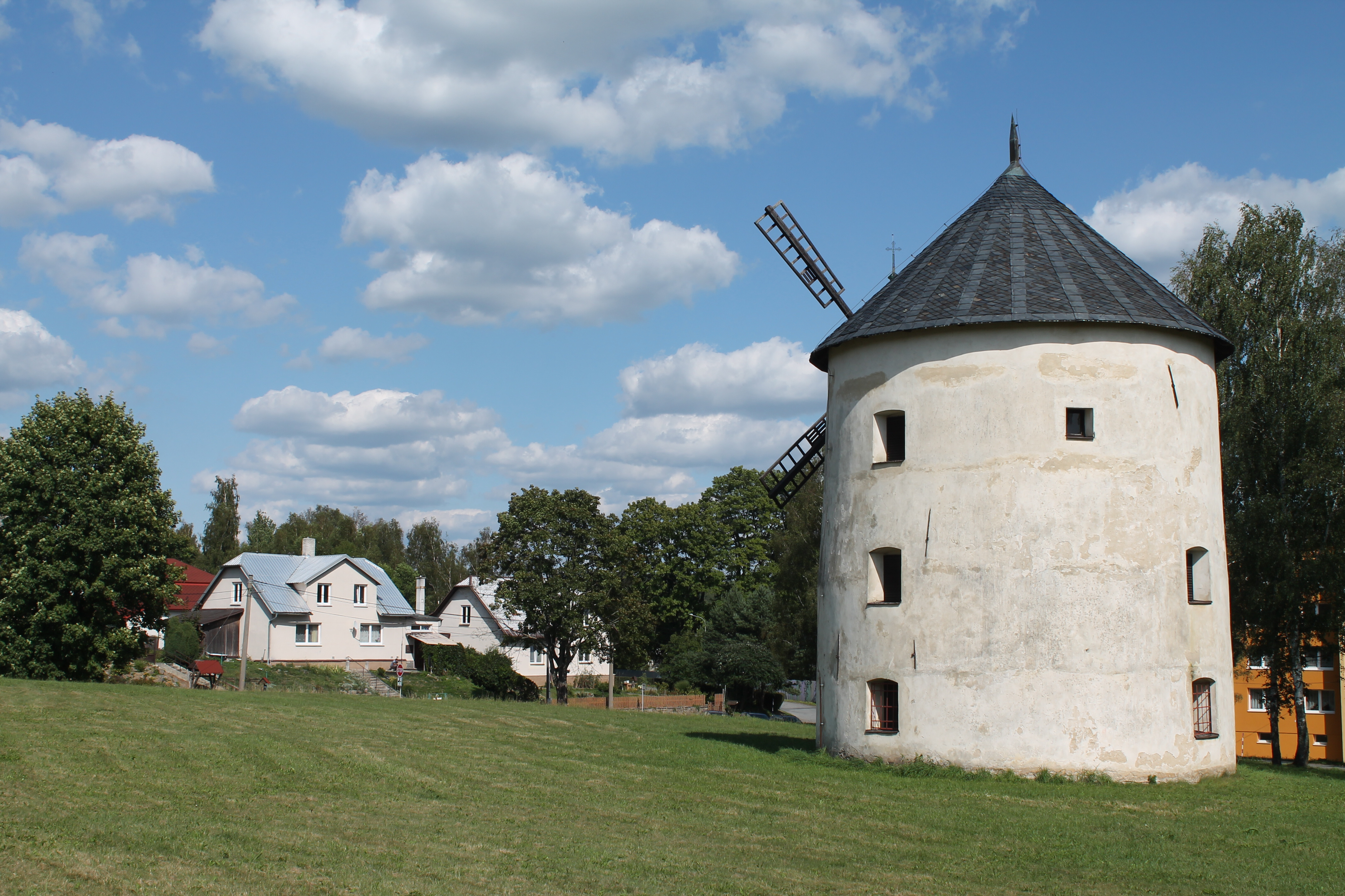 Windmill, Město Libavá, Olomouc District, Czech Republic